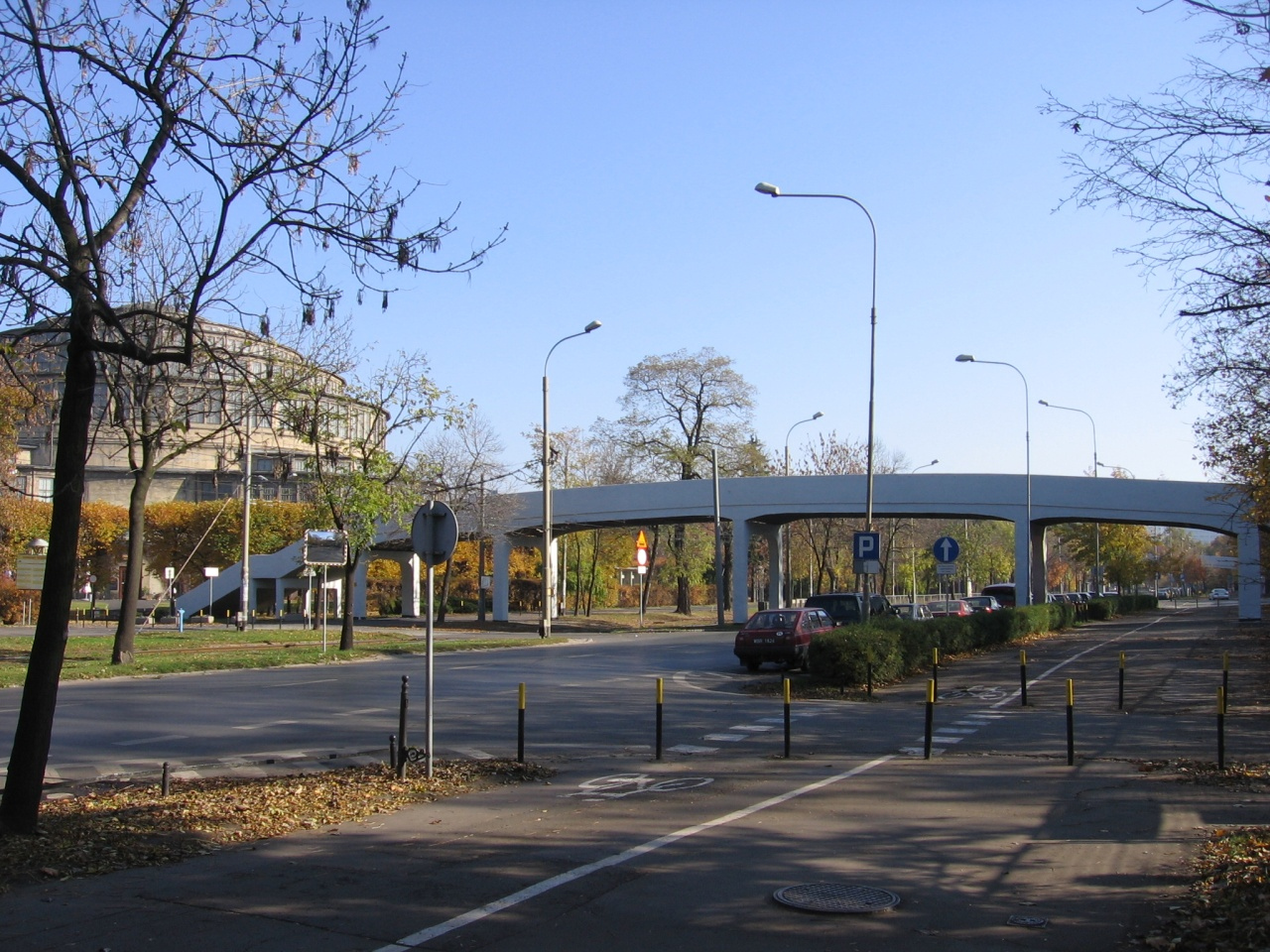 Wrocław, Poland - pedestrian bridge between southern and northern part of exhibition area (now southern part is using by Zoological garden after its postwar extension), design by Richard Konwiarz, 1926. There are two twin bridges, next one is circa two hundred meter beyond (behind trees as white line under the closer bridge, fragment seen only under right span). On the left (northern) part Hala Ludowa ("People's Hall", formerly Jahrhunderthalle - "Century's Hall"), design Max Berg & R.Konwiarz, 1913.